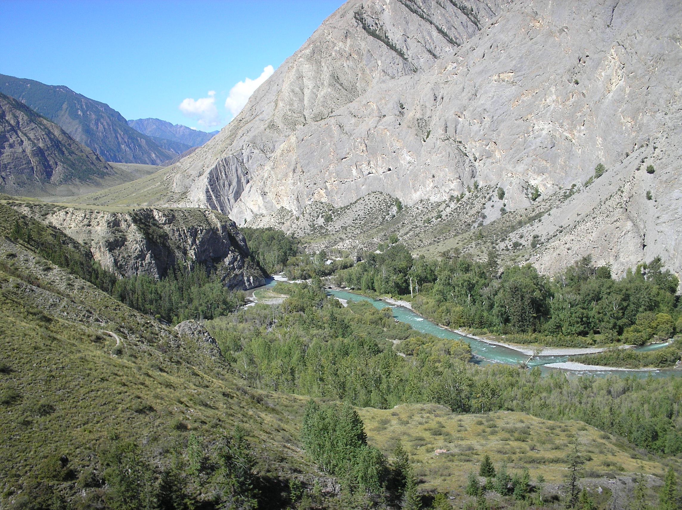 Valley of the River Shavla.